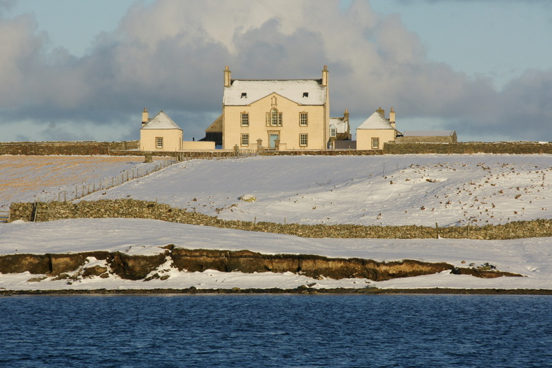 Belmont House in the snow